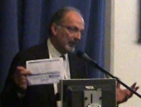 Geohazard society symposium in NASA Ames Research Centre. Ronald Karel explains ionized earthquake clouds